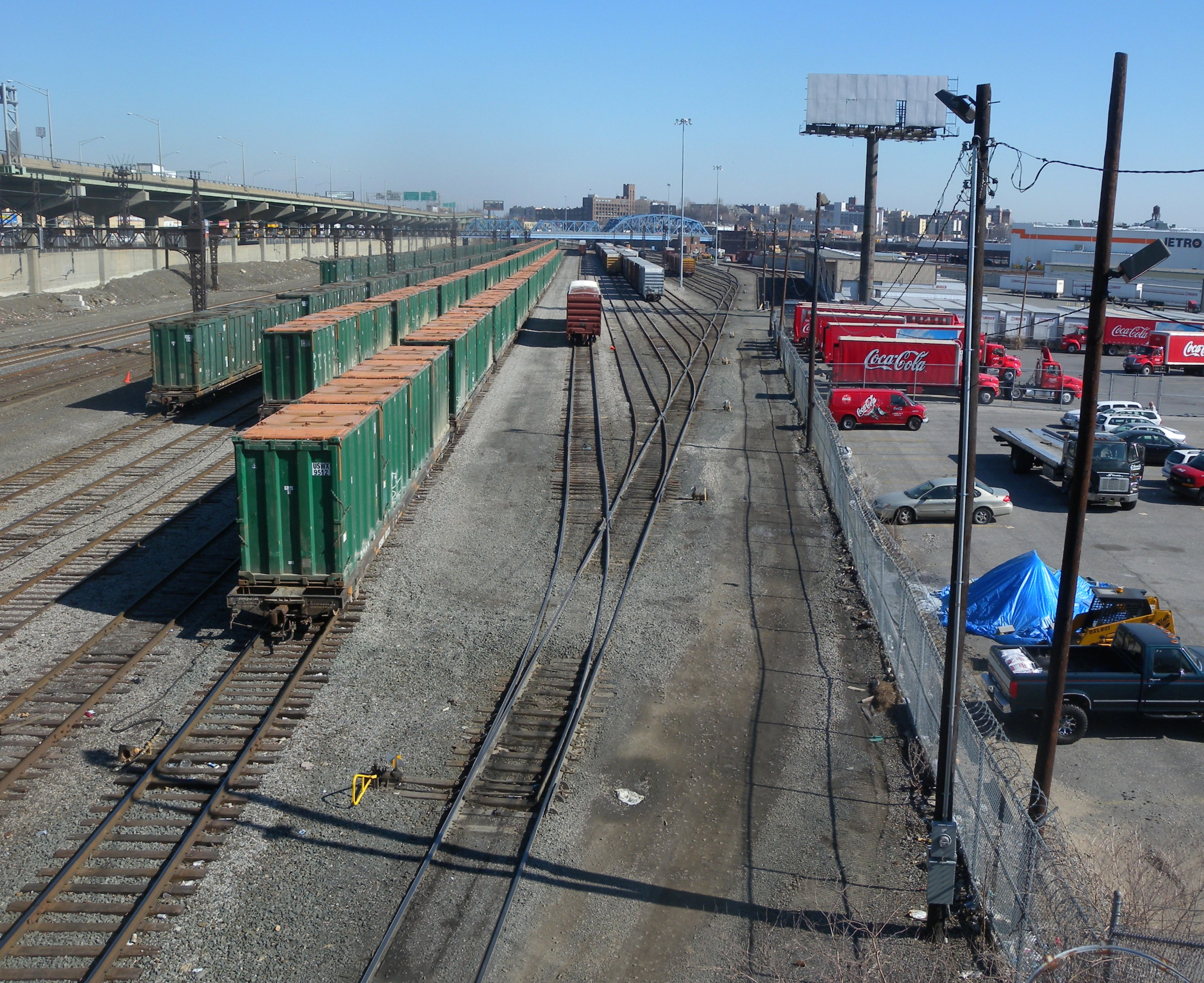 Looking northeast at Oak Point Yard from 149th Street bridge on a sunny midday. The Green Freight Cars are NYC Dept. of Sanitation "Garbage Train" Cars, once they are loaded with garbage they (generally) get sent down to Pennsylvania where the garbage is then transferred into a landfill. Leggett Ave Bridge, blue, in background.